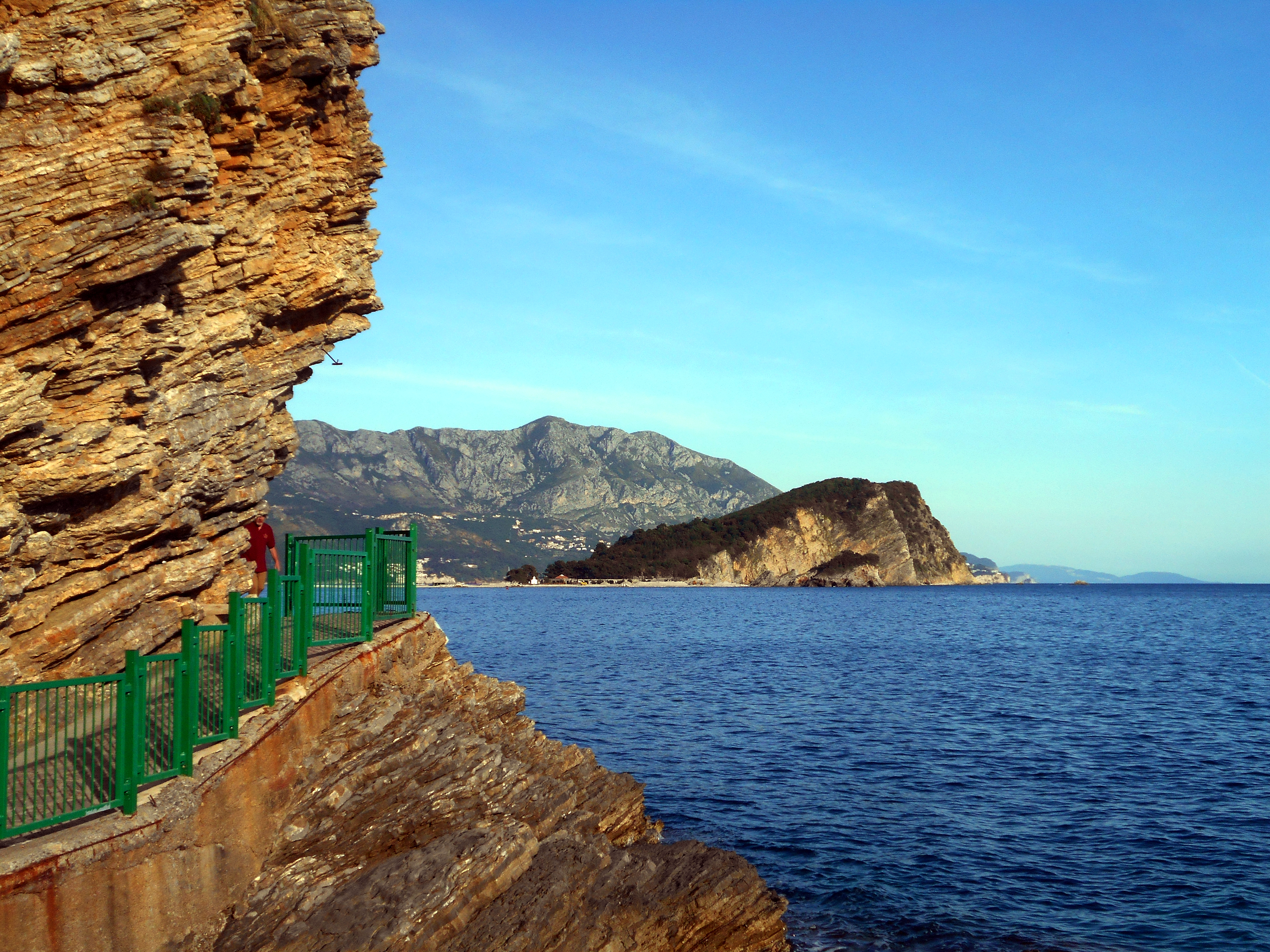 Trail to Mogren Beach